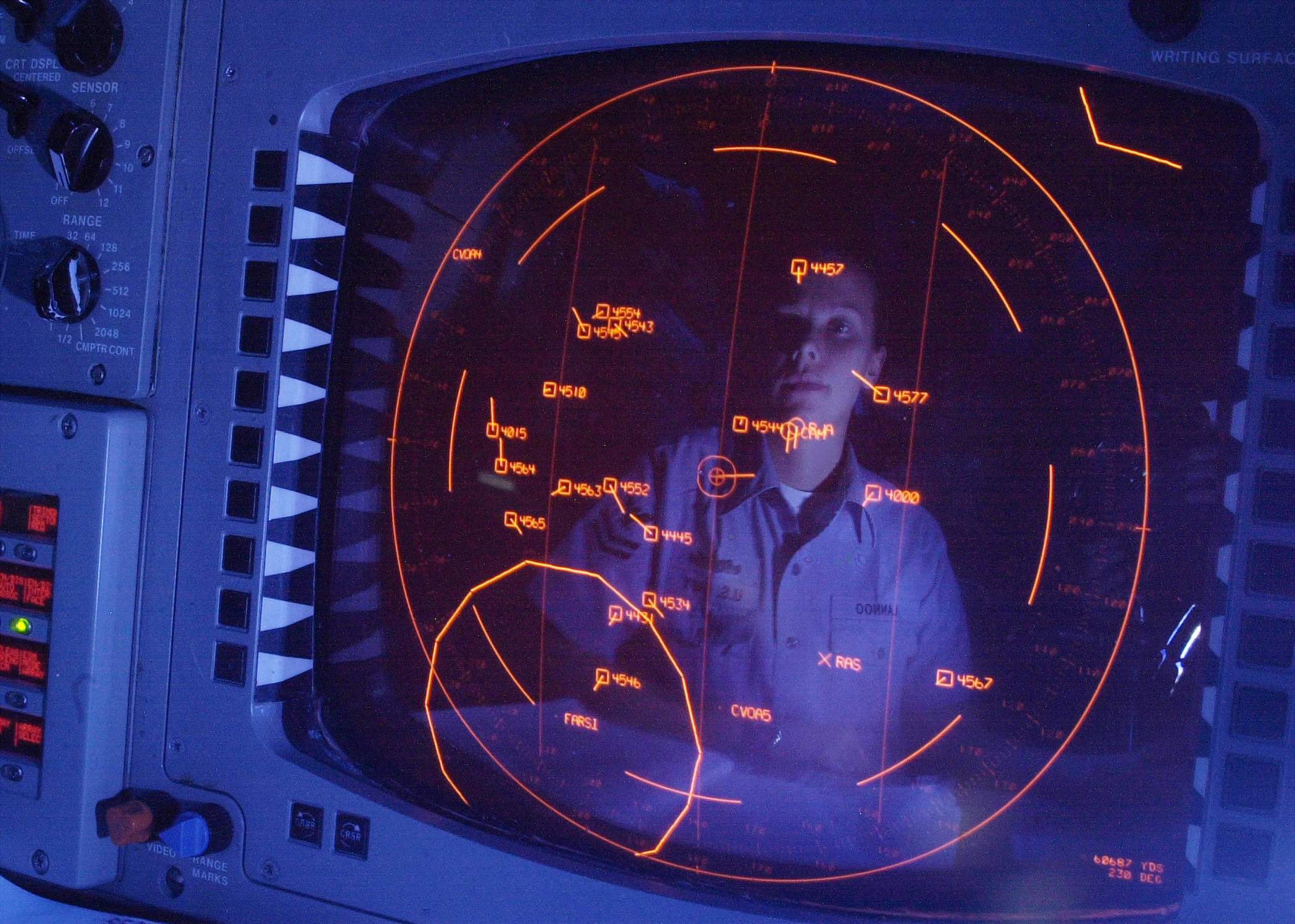 Electronic Warfare Specialist 2nd Class Sarah Lanoo from South Bend, Ind., operates a Naval Tactical Data System (NTDS) console in the Combat Direction Center (CDC) aboard USS Abraham Lincoln. The Abraham Lincoln is on a regularly scheduled deployment conducting combat operations in support of Operation Southern Watch.